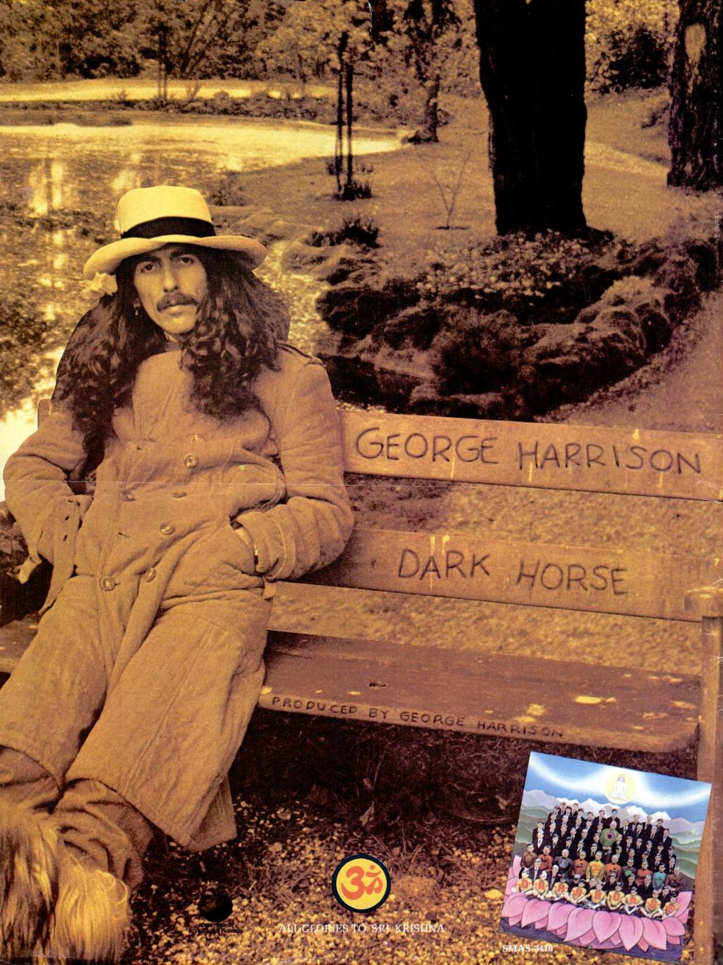 Trade ad for George Harrison's album Dark Horse.